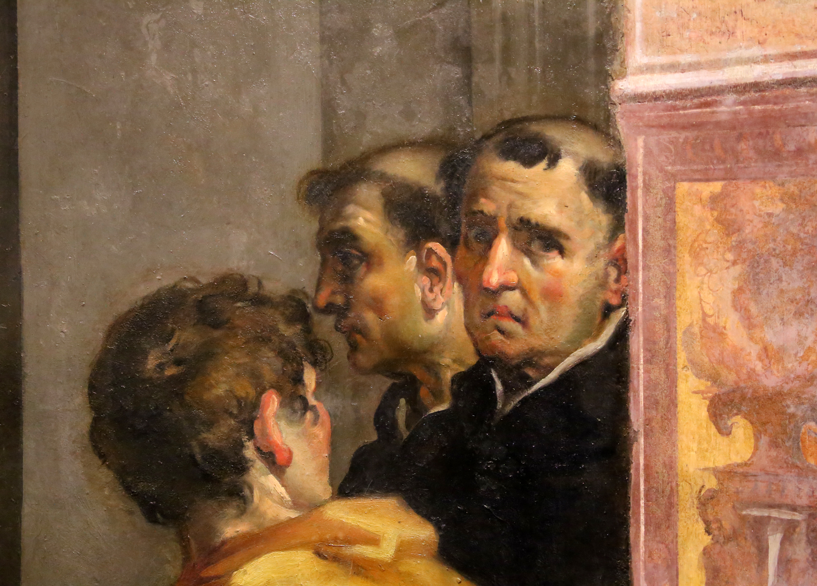 Life of Catherine of Siena and Saints (Francesco Vanni)